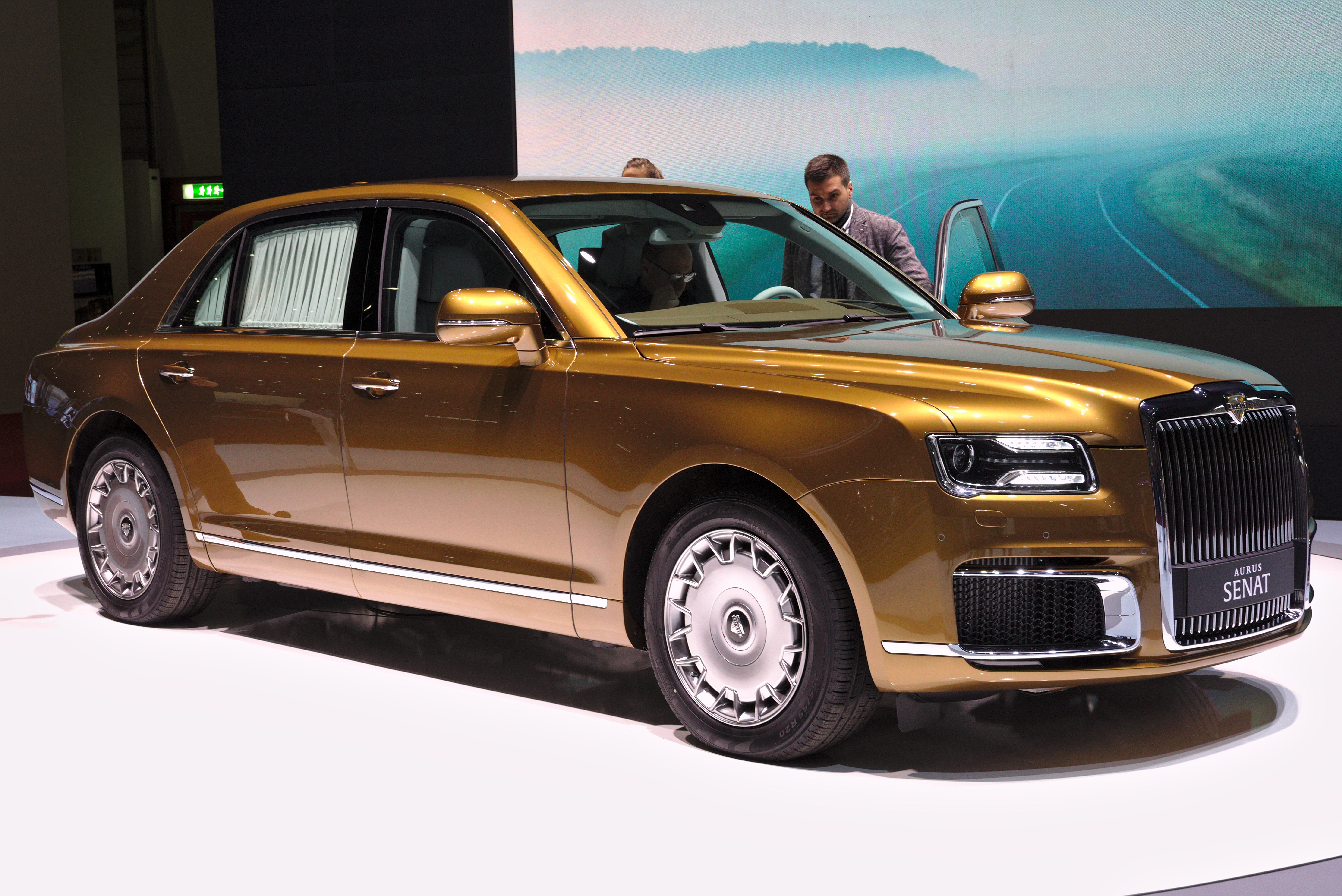 Aurus Senat at Geneva Motor Show 2019